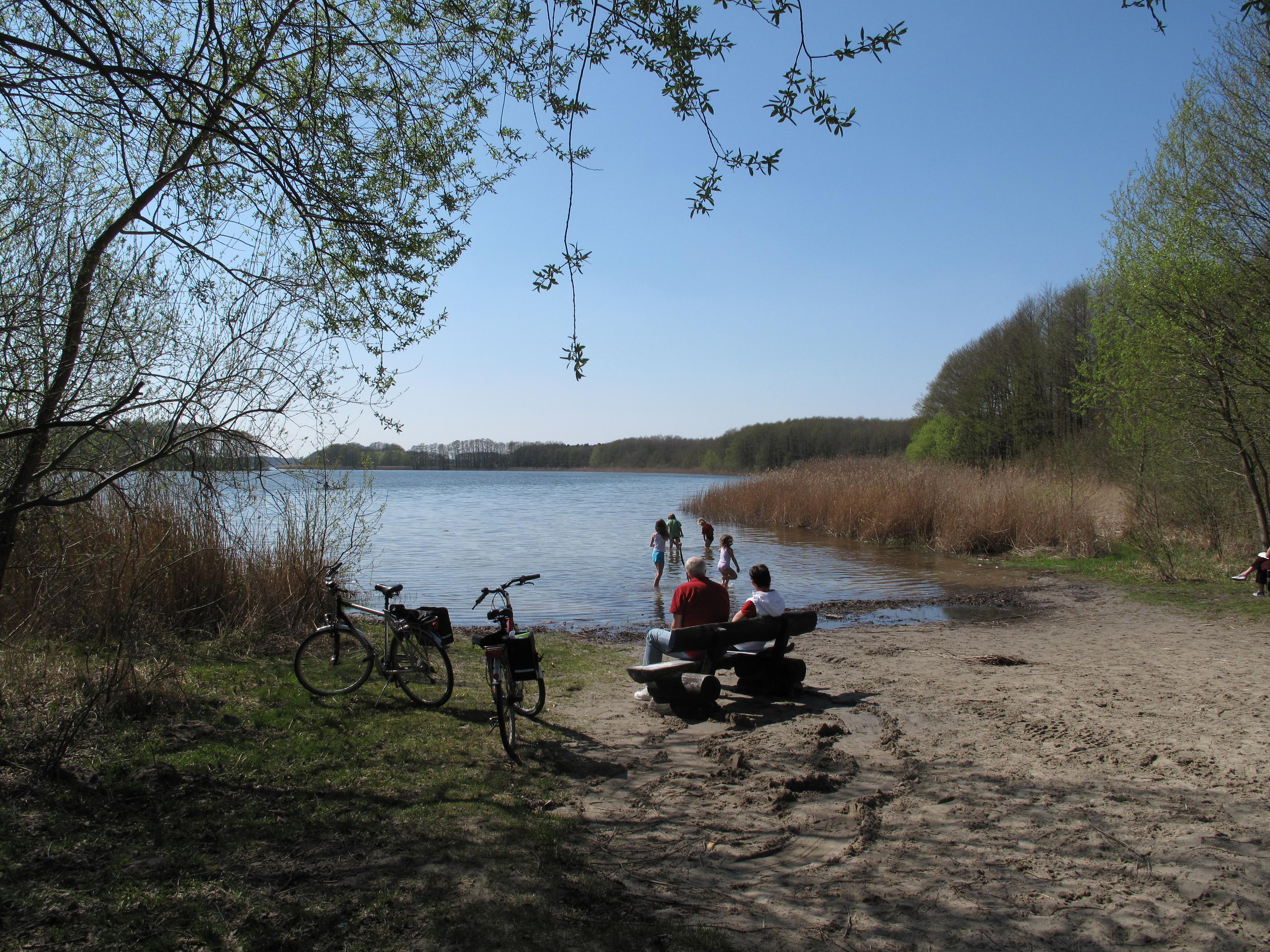 Beach of Wildenbruch at the Großer Seddiner See, a glacial lake in the nature park Nuthe-Nieplitz in Germany, Brandenburg, district Potsdam-Mittelmark. The lake covers 2,18 km² and is situated in the municipalities Seddiner See and Michendorf.